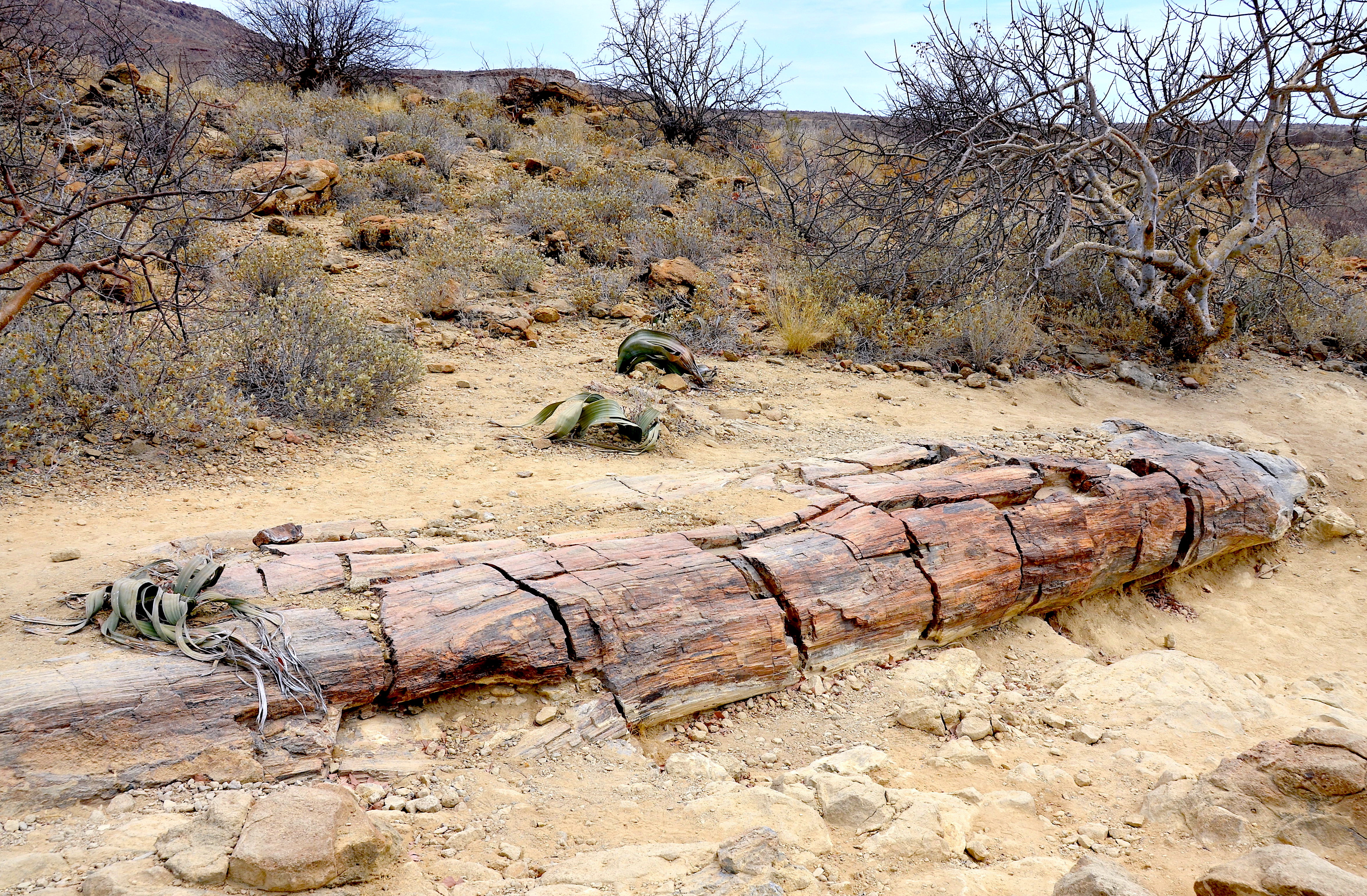 Petrified tree trunk and Welwitschia in Namibia (2014)